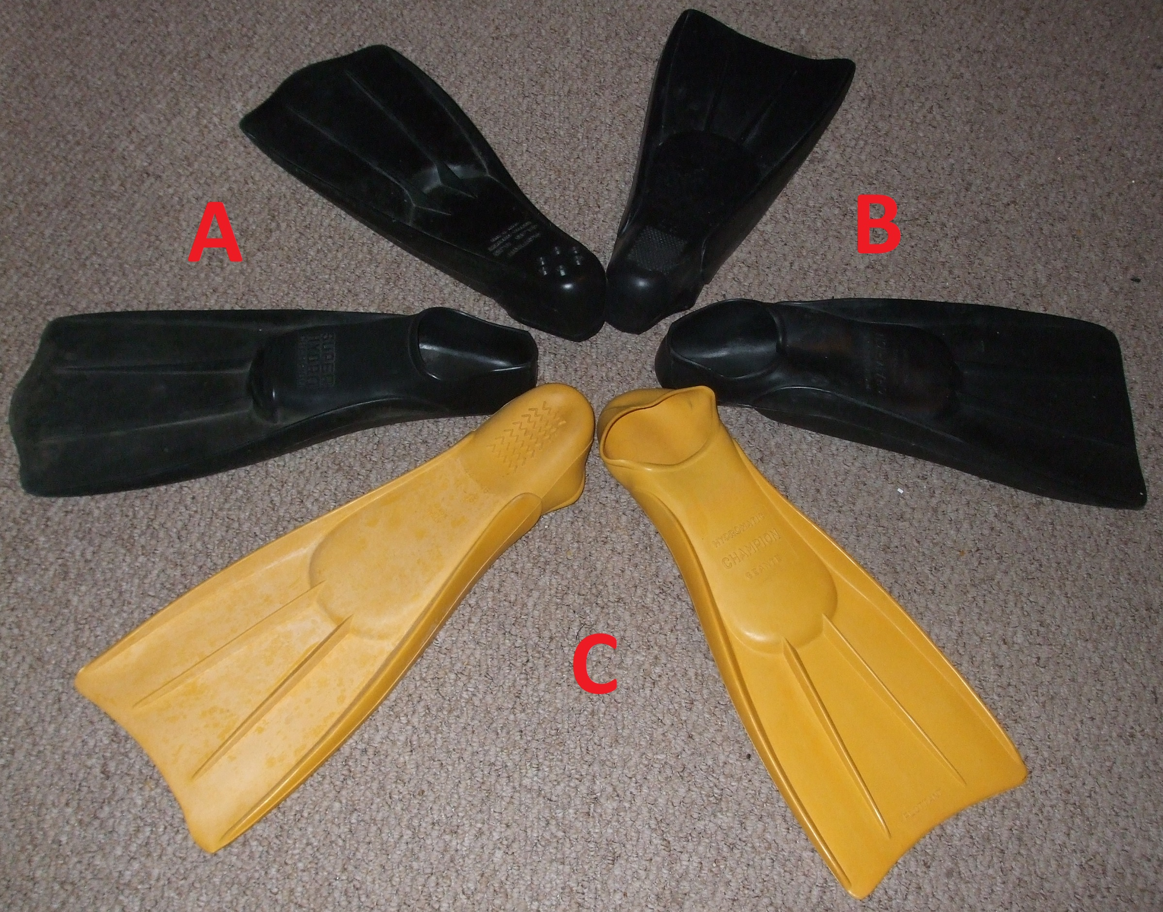 Pair A: Newer (1960s) black Cavalero-Champion Super Hydro swimming fins with closed heels and open toes. Pair B: Older (1950s?) black Cavalero-Champion Hydromatic swimming fins with closed heels and toes. Pair C: Newer (1960s) yellow Cavalero-Champion Hydromatic swimming fins with closed heels and toes.